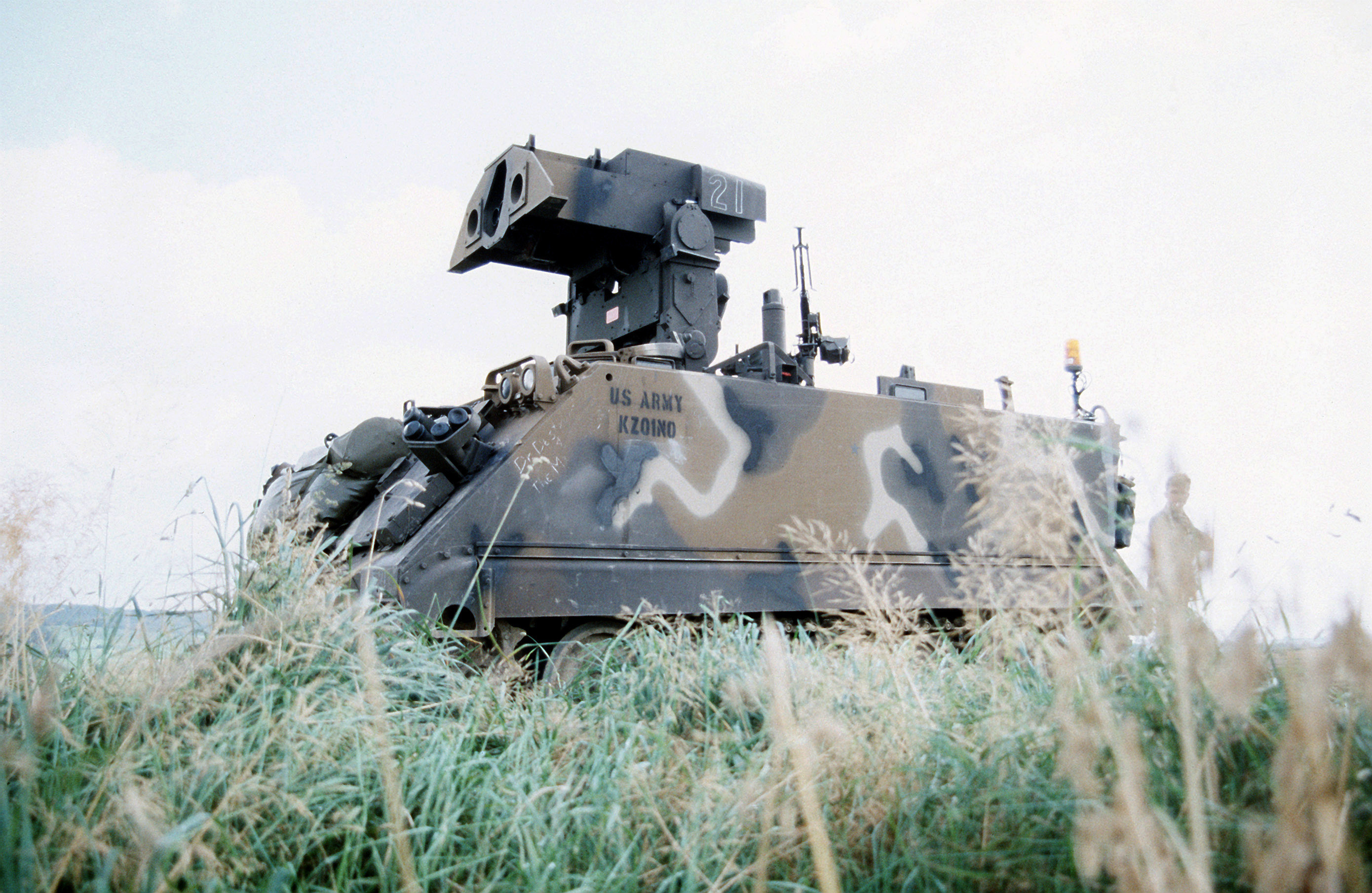 A left side view of an M901 improved tube-launched, optically-tracked, wire-guided (TOW) missile vehicle deployed during Exercise REFORGER '85.